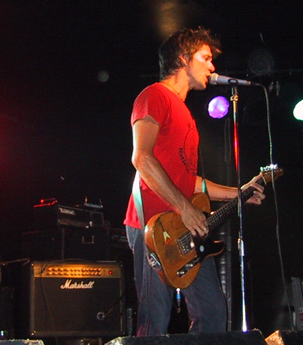 Nick Barker on stage in Queensland Australia after returning from his first tour of Brasil in 2003